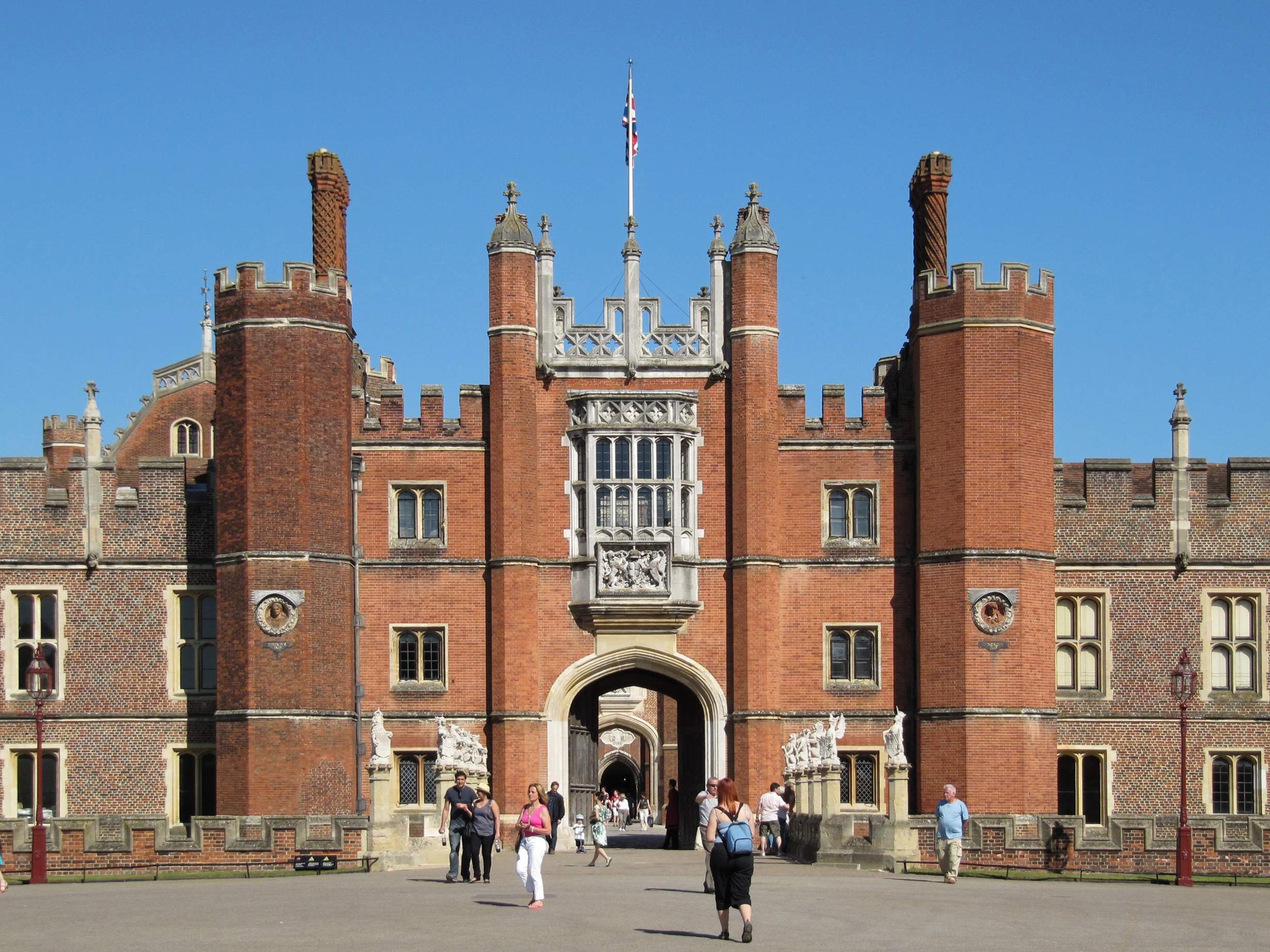 The Great Gate at Hampton Court Palace.